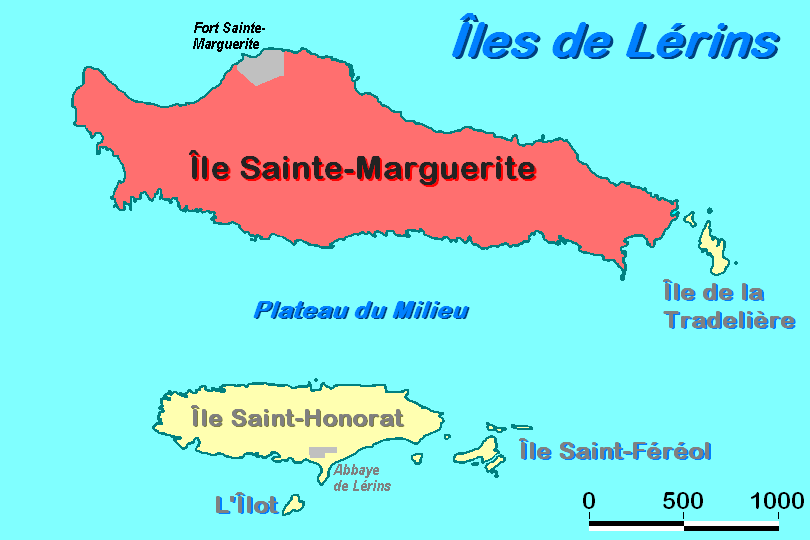 Location of Sainte-Marguerite within Lérins islands.